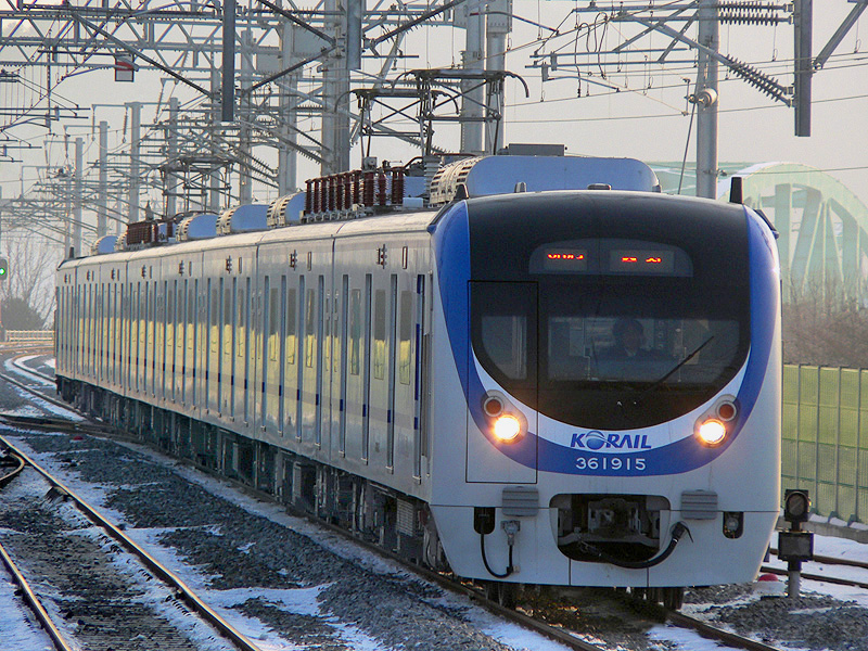 KORAIL 361000series EMU